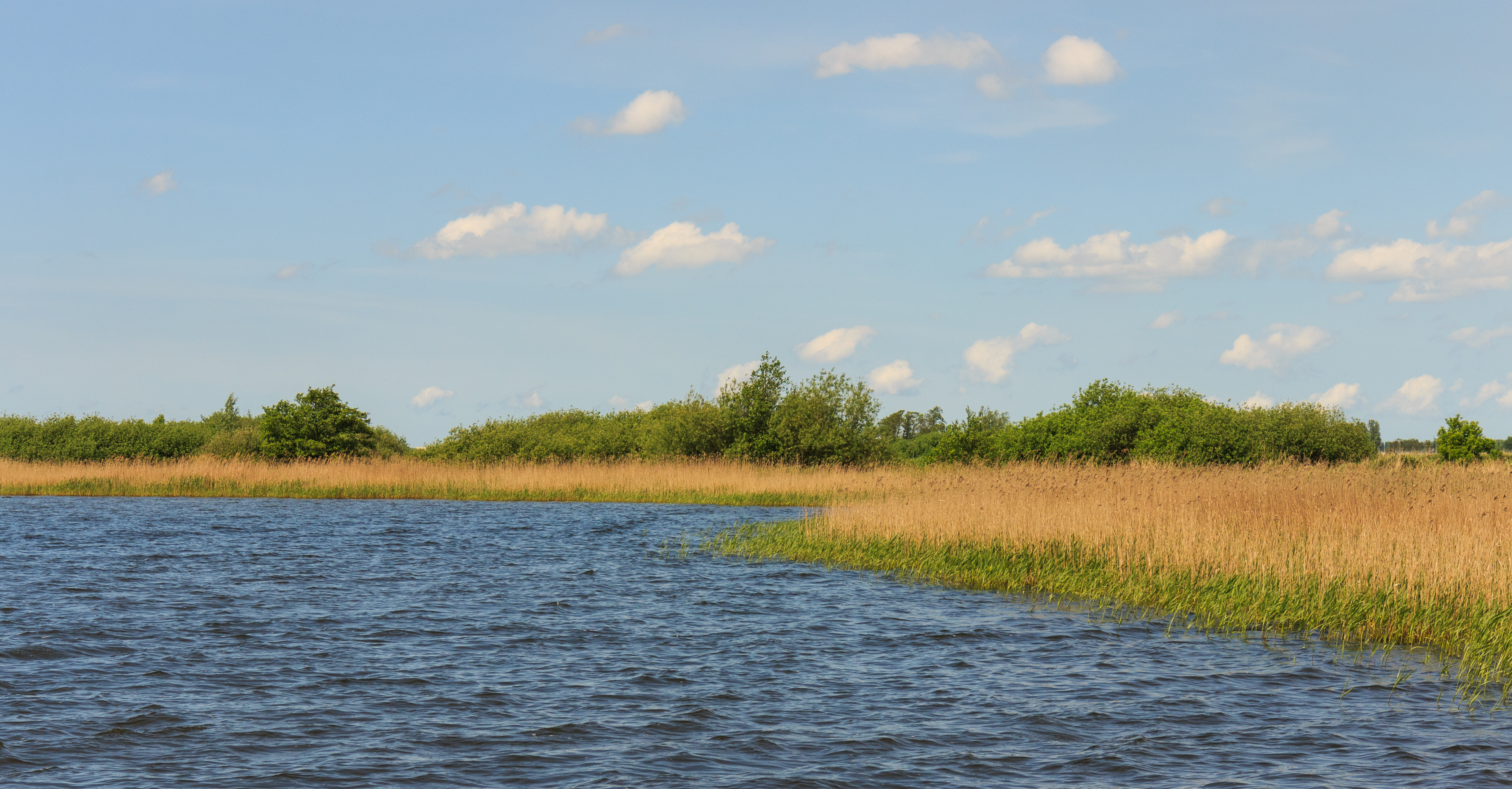 The Kûfurd Dyken Recreation Place De Kûfurd.